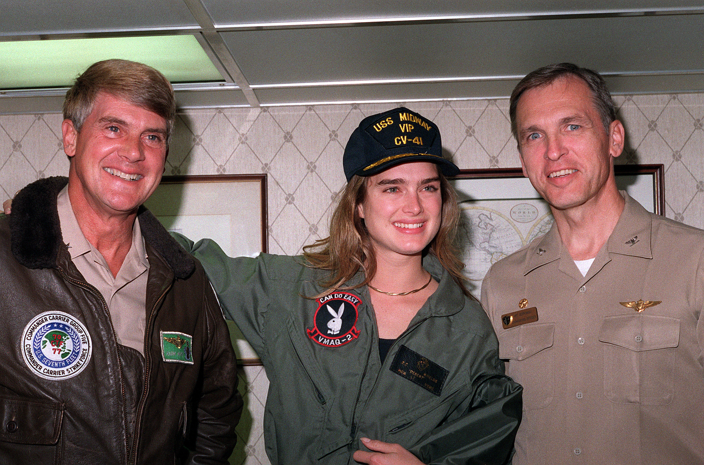 Actress Brooke Shields is flanked by Rear Adm. Daniel P. March, left, commander, Carrier Group Five, and Capt. Arthur K. Cebrowski, commanding officer of the aircraft carrier USS MIDWAY (CV-41), during her visit to the MIDWAY. Shields' visit is part of a tour sponsored by the United Service Organizations (USO). The MIDWAY is in the gulf to support Operation Desert Shield.